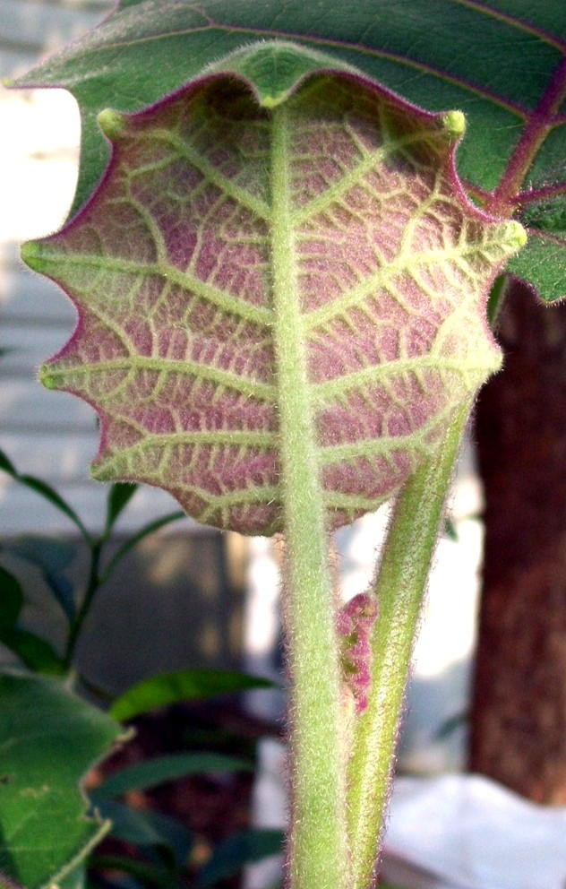 5 month old naranjilla - new leaf shoot. Chapel Hill, North Carolina